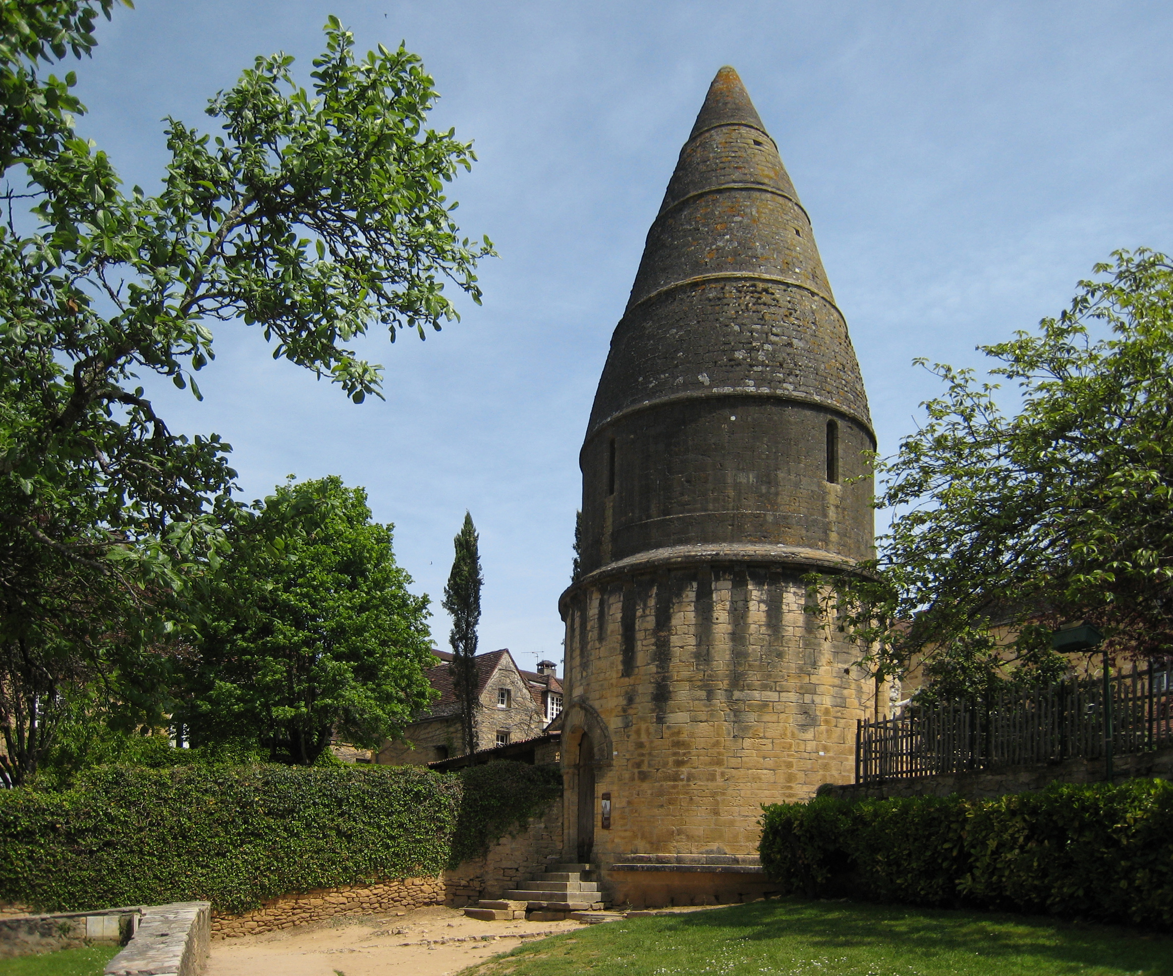 Village of Sarlat in the Département of Dordogne/France - old town, Lanterne des Morts